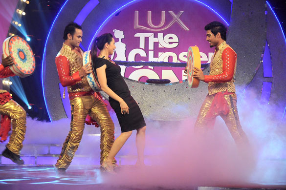 Karisma Kapoor graces the finale of UTV Stars 'Lux The Chosen One'